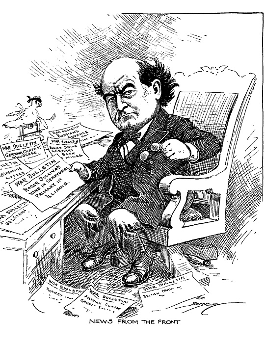 This cartoon depicts U. S. Secretary of State William Jennings Bryan reading news from war fronts, 1914 (artist, Berryman, Clifford K.).